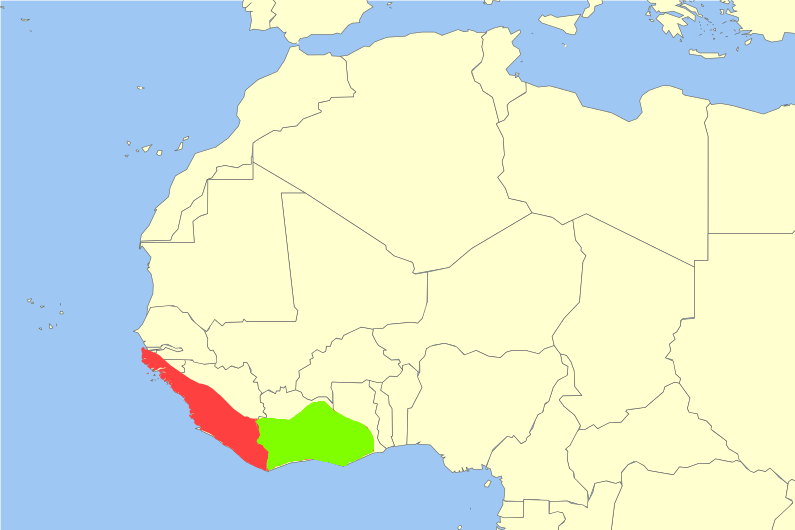 Geographic distribution of Campbell's mona monkey (Cercopithecus campbelli) and Lowe's mona monkey (C. lowei)